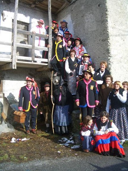 Aboi's group in Chionea